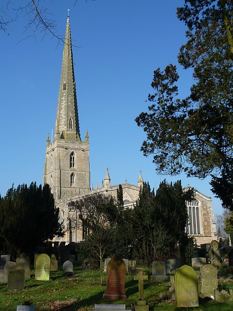 St Mary, Bottesford The soaring spire makes this, after Melton and Leicester, the "paramount parish church of Leicestershire" according to Pevsner. The tower (94 feet) and spire (113 feet) originally date from the C15th, but were rebuilt in 1876. The church is designed mostly in the Perpendicular Gothic style, and the oldest parts date back to the C13th. Grade I listed.